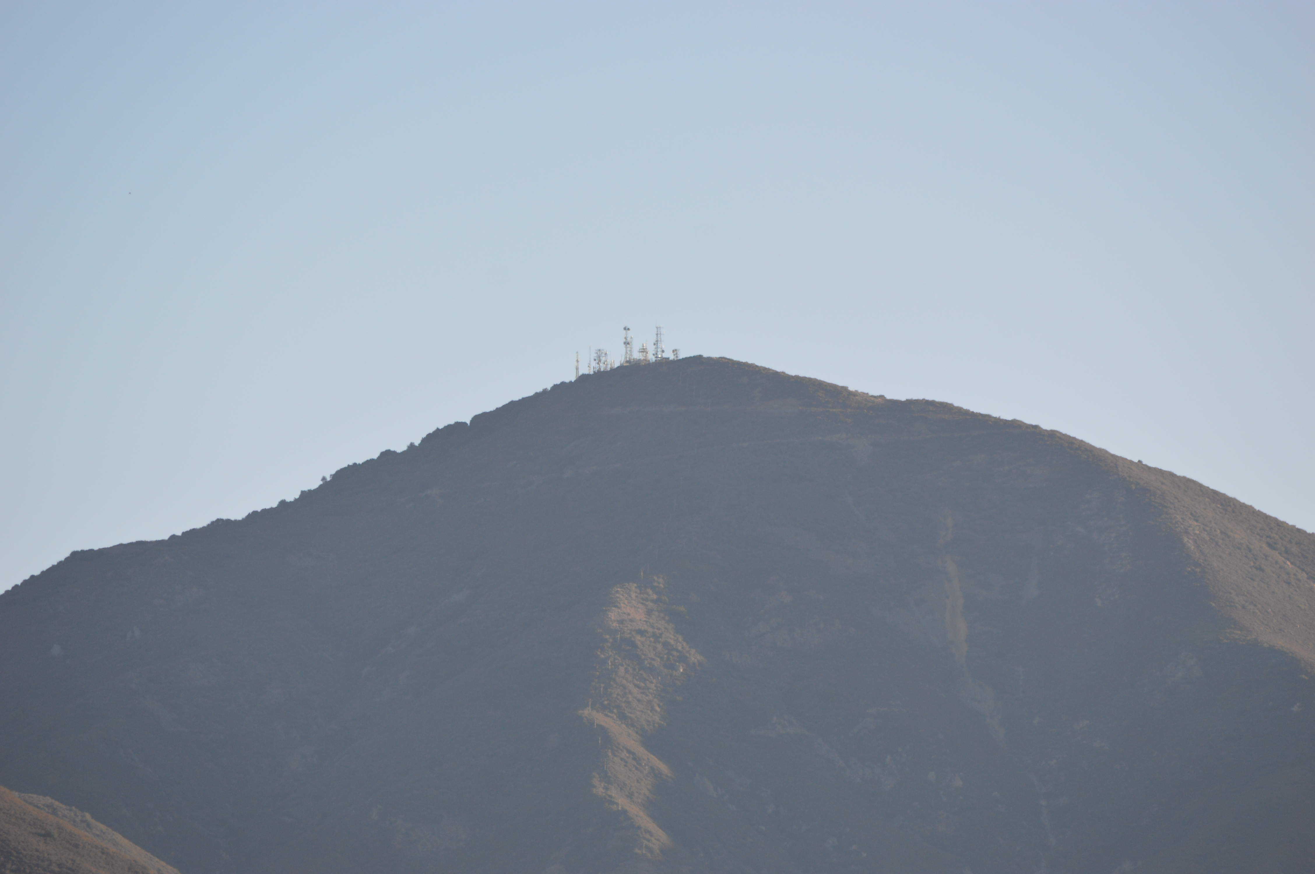 Santiago Peak (Saddleback) viewed from South Orange County, California, U.S.A.